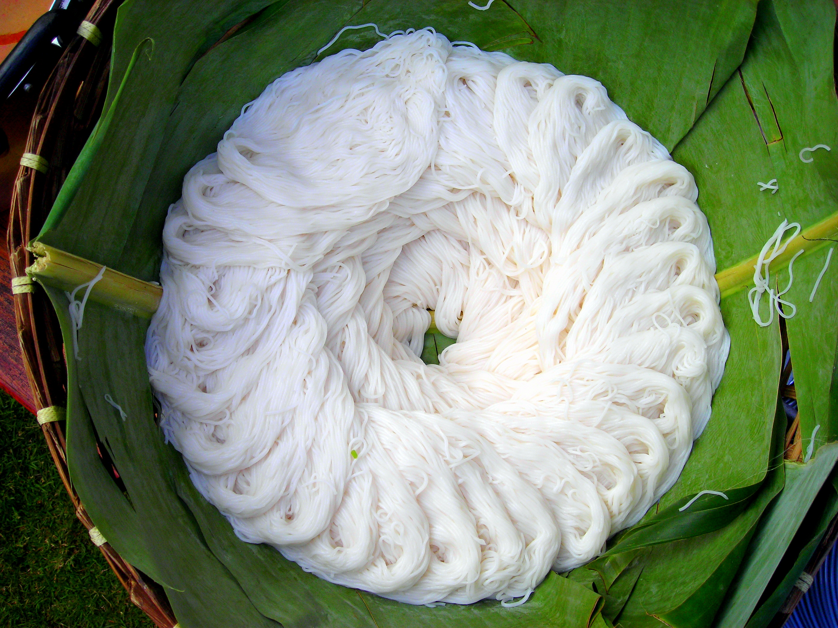 Khanom Chin - Thai rice vermicelli